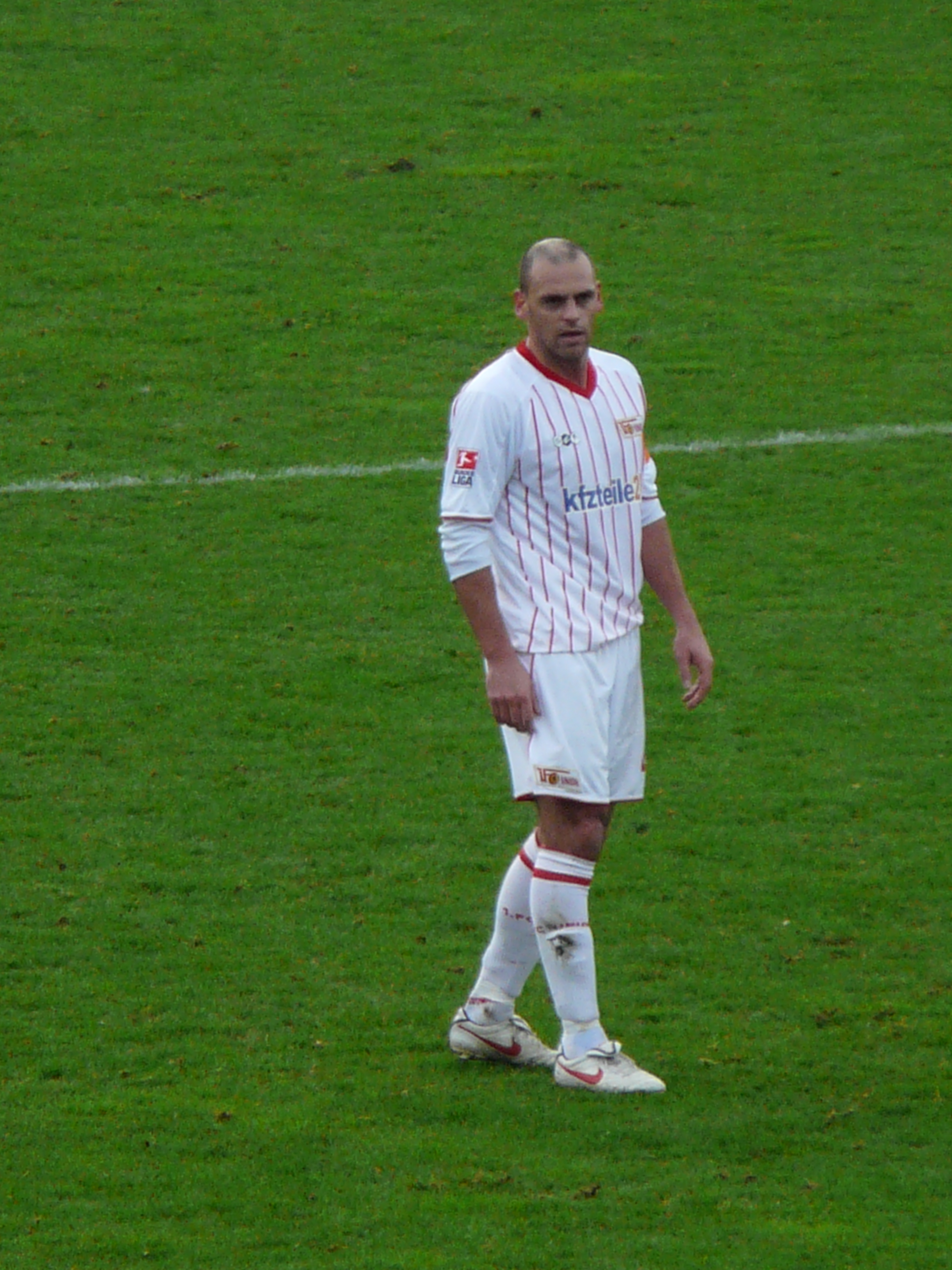 Marco Gebhardt as Player from Union Berlin